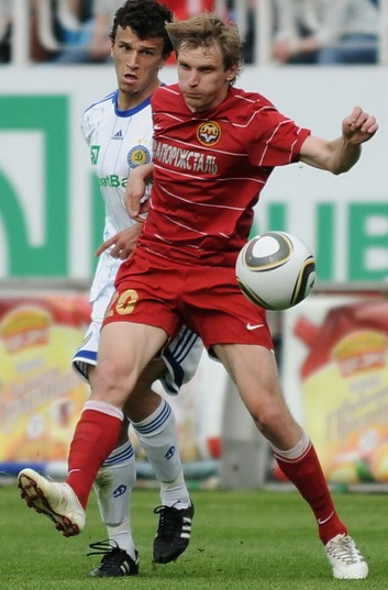 Yan Tsiharow with FC Metalurh Zaporizhzhya